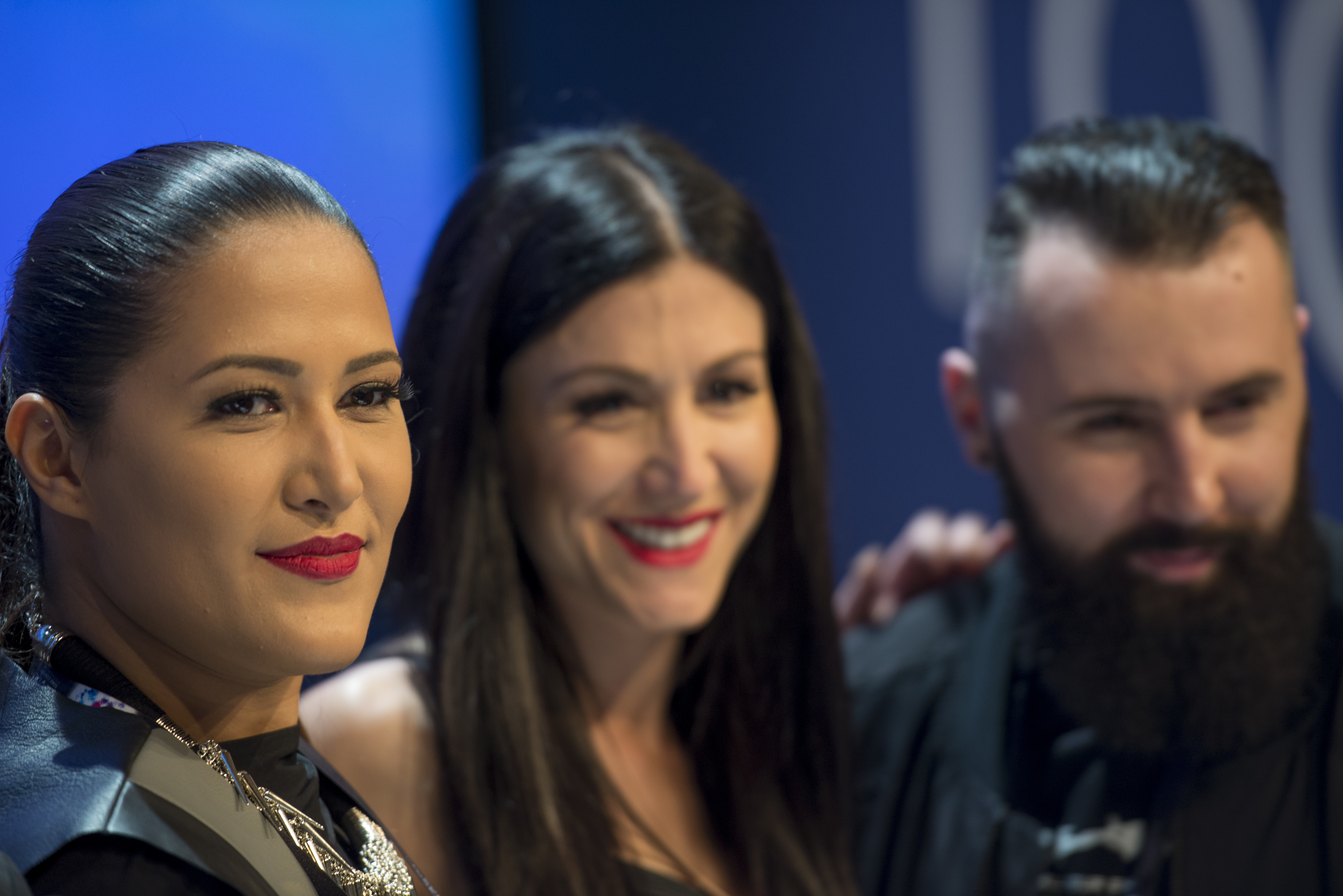 Dalal & Deen feat. Ana Rucner and Jala at a Meet & Greet during the Eurovision Song Contest 2016 in Stockholm. (Help translate this text)